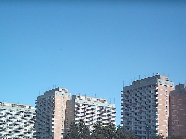 The boxy look of buildings built in the 1970s